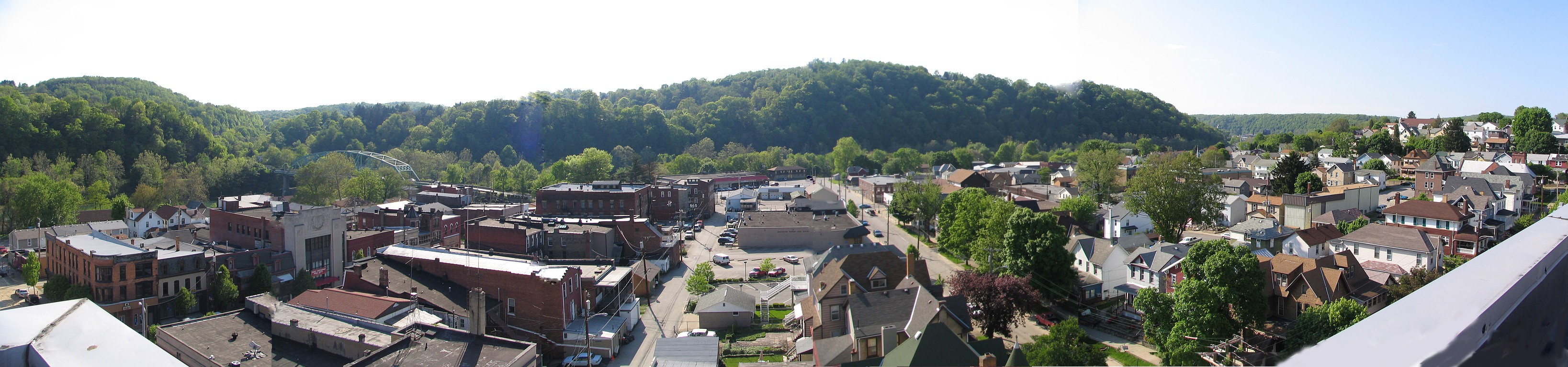 Leechburg Panoramic Picture. Made from multiple images from atop the Highrise on the corner of 2nd and Main Street. Clinton N. Godlesky. From Personal Collection.